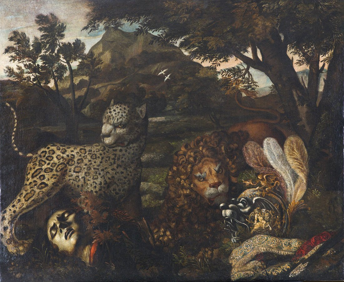 The Kingdom of Sorceress Circe by Angelo Caroselli and Pseudo Caroselli, c. 1630, oil on canvas, 60.5 x 74 cm